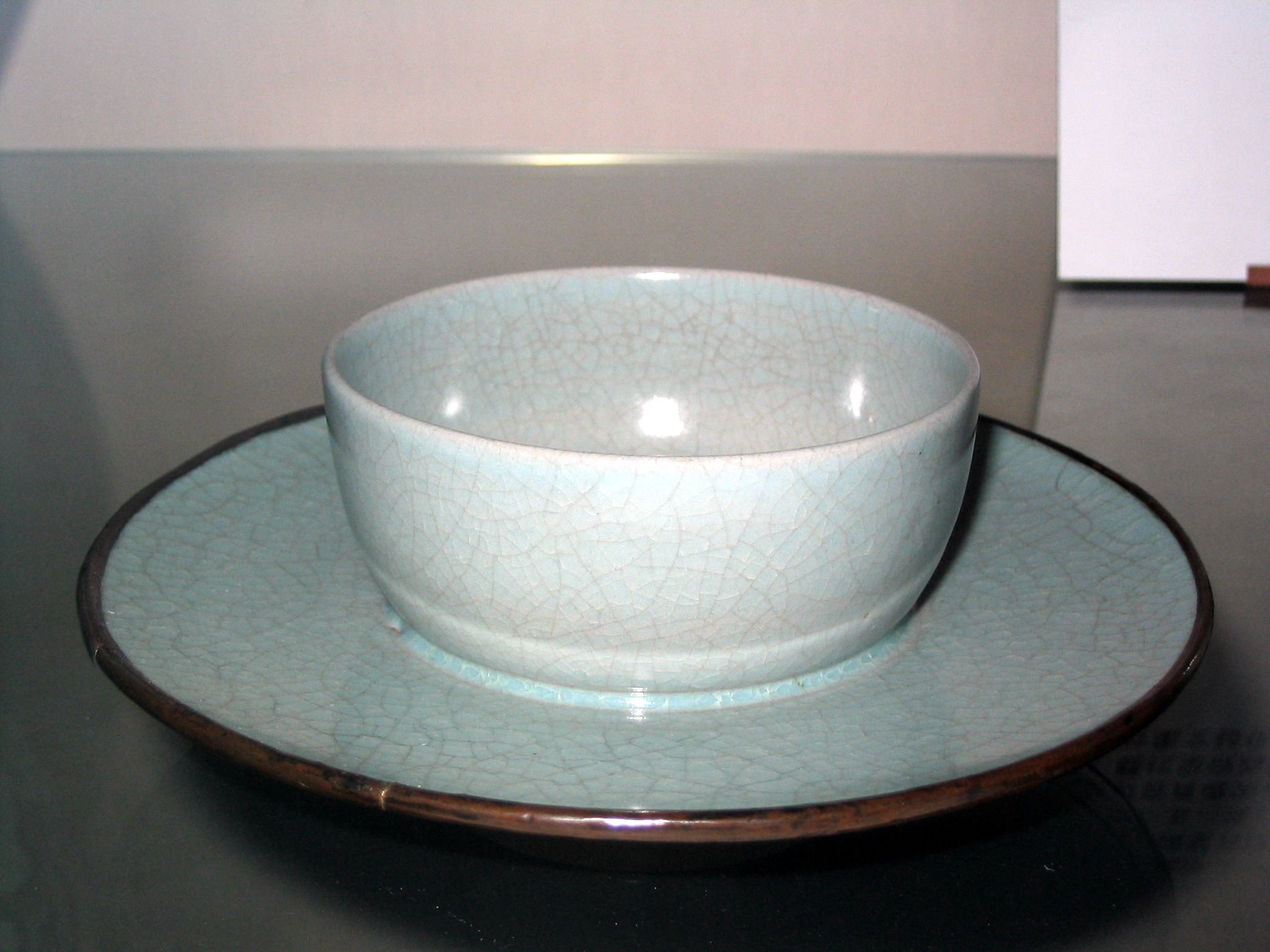 I took this picture of an object in the Victoria and Albert Museum in London. Photography is permitted in the museum and no restrictions are placed on the resulting images.